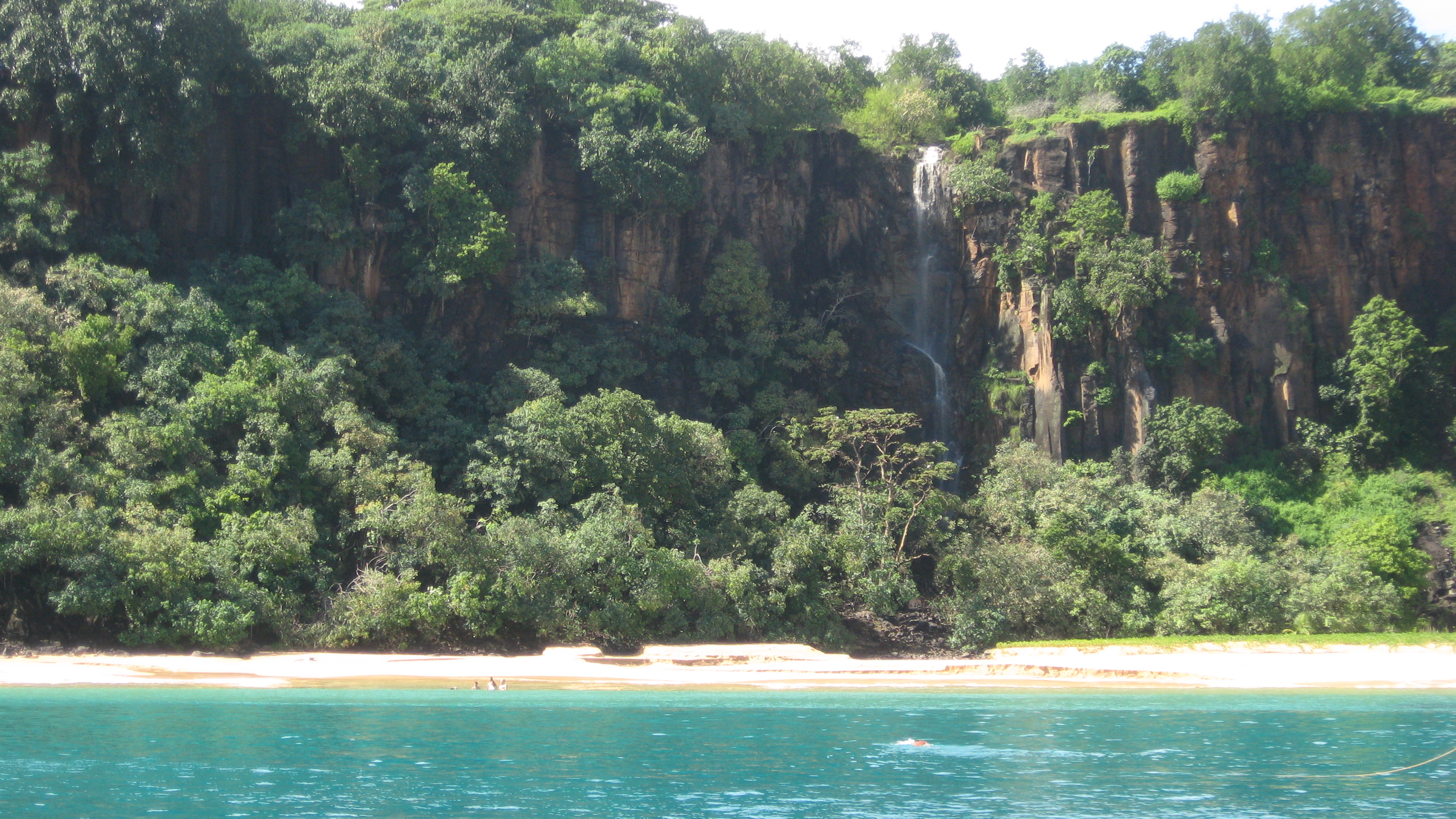 Sancho Bay - Fernando de Noronha, Pernambuco, Brazil